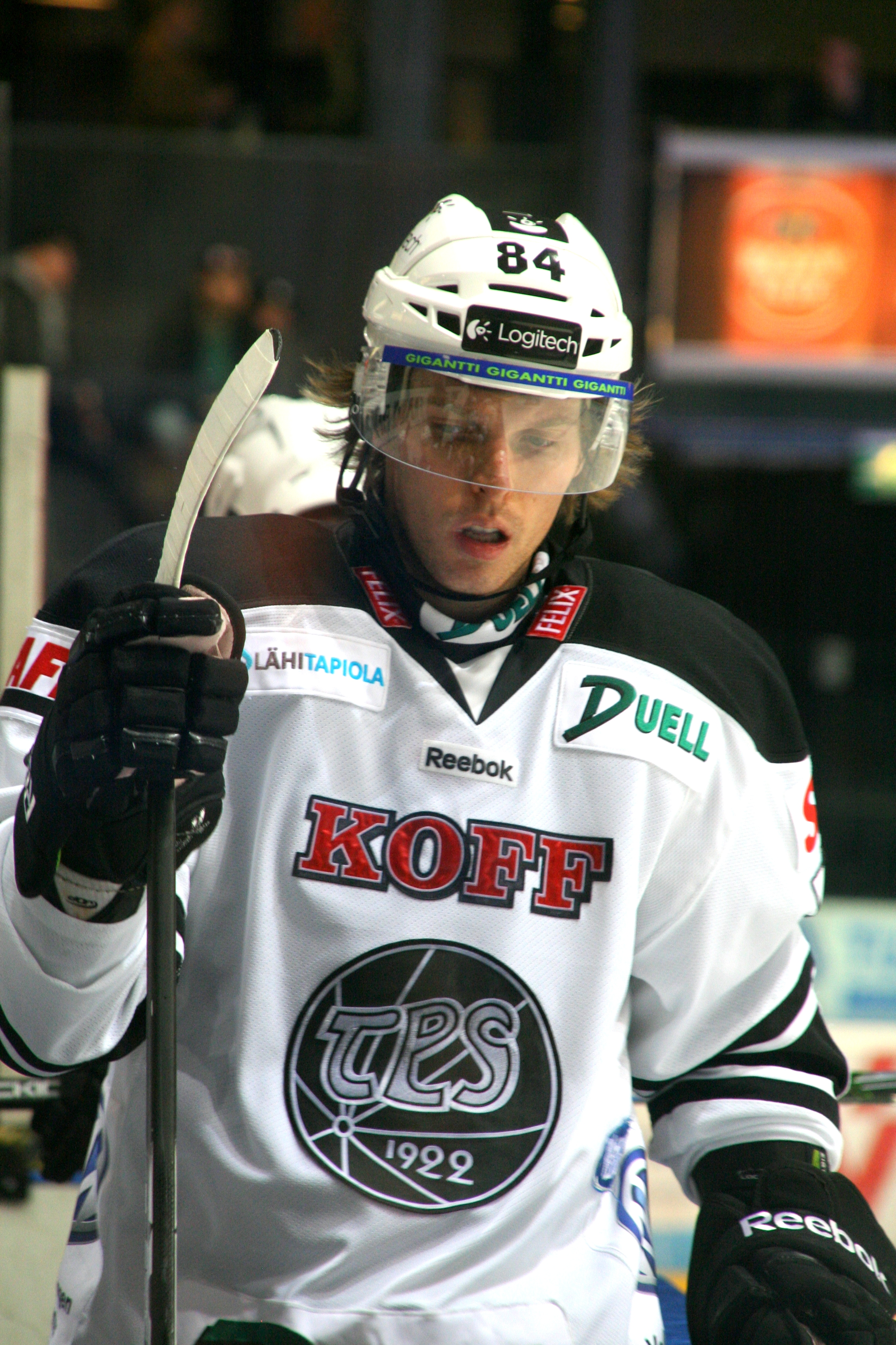 Ice Hockey Team Turun Palloseura's Attacker #84 Corey Locke